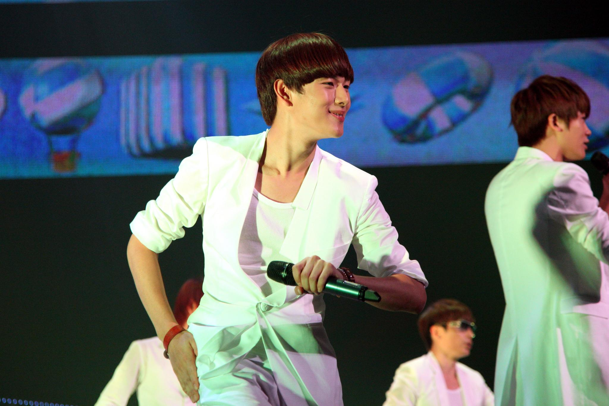 ZE:A Siwan, Cyworld Dream Music Festival 2011